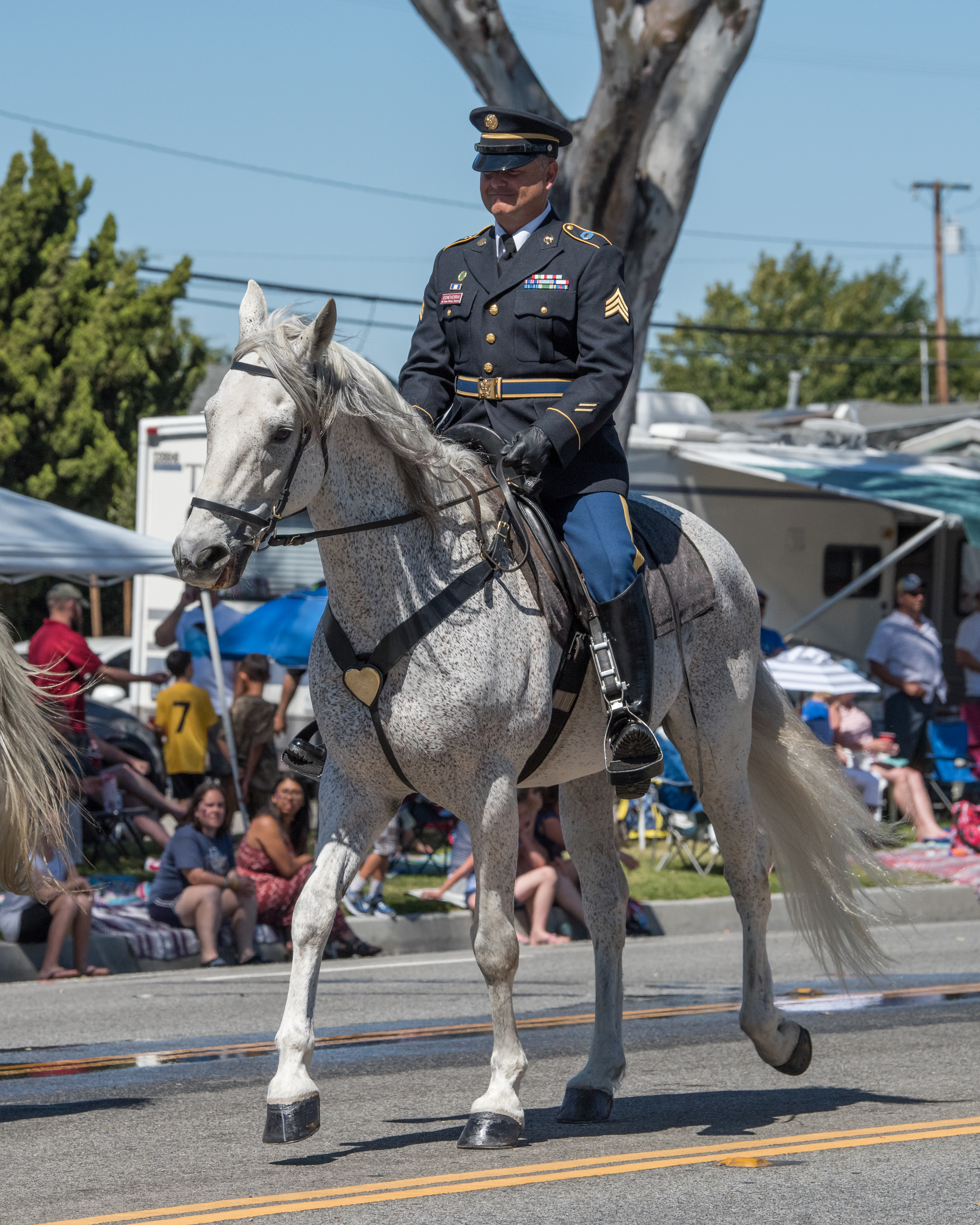 California State Military Reserve 26th Calvary Support Regiment Sgt. Pedro Echeverria rides in the 58th Annual Torrance Armed Forces Day Parade